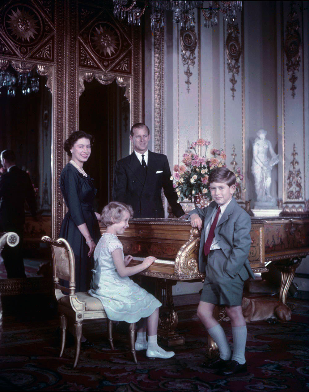 The Queen, the Duke of Edinburgh, the Duke of Cornwall and Princess Anne